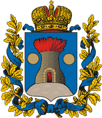 Kielce gubernia (Russian empire), coat of arms